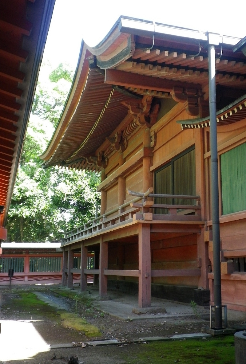 Main hall (honden) of the Iigaoka Hachiman Shrine in Ichihara City, Chiba Prefecture, Japan